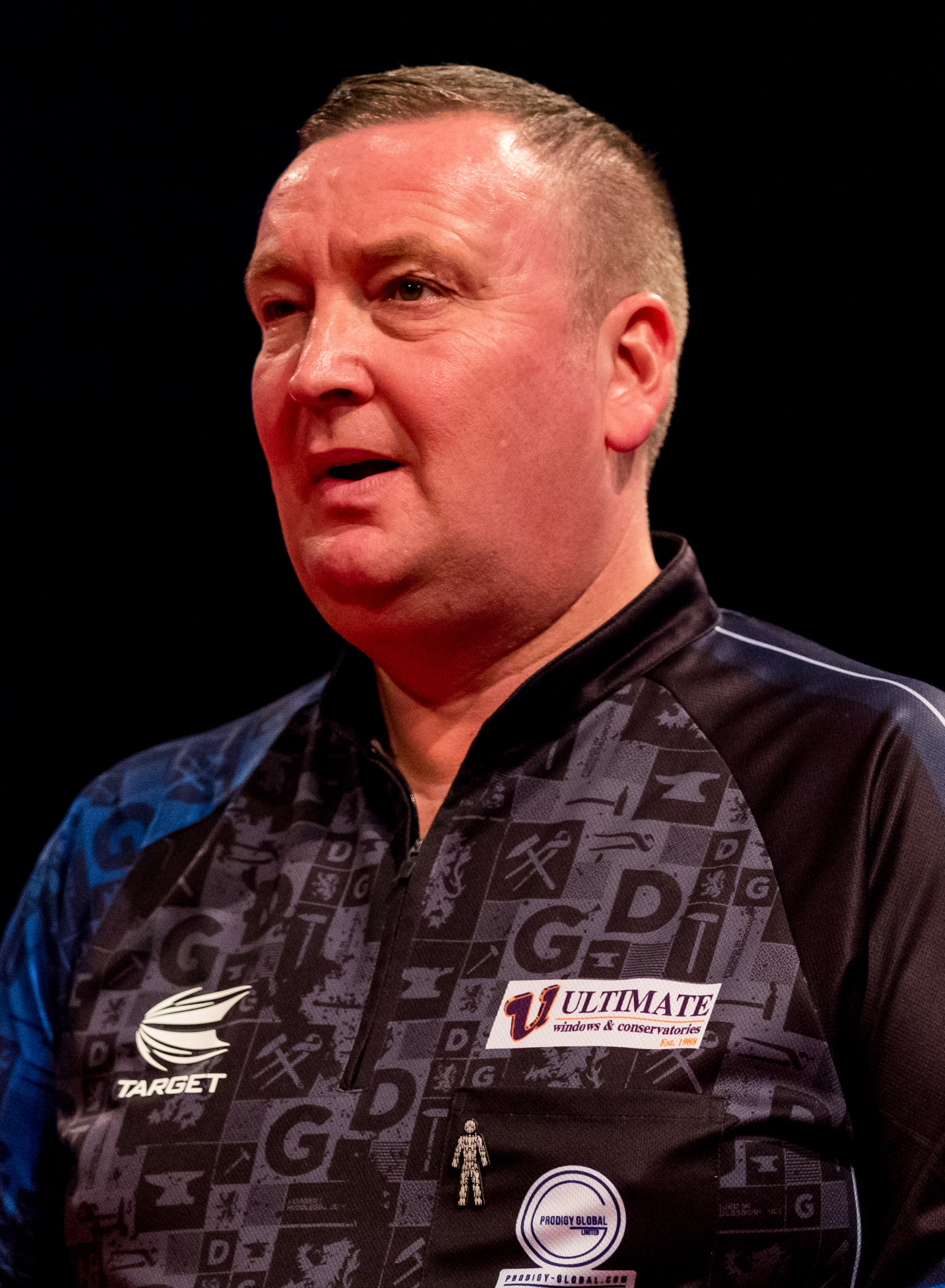 Glen Durrant 6:3 Cody Harris during PDC Europe Darts Matchplay at Maimarkthalle, Mannheim, Baden-Württemberg, Germany on 2019-09-07, Photo: Sven Mandel